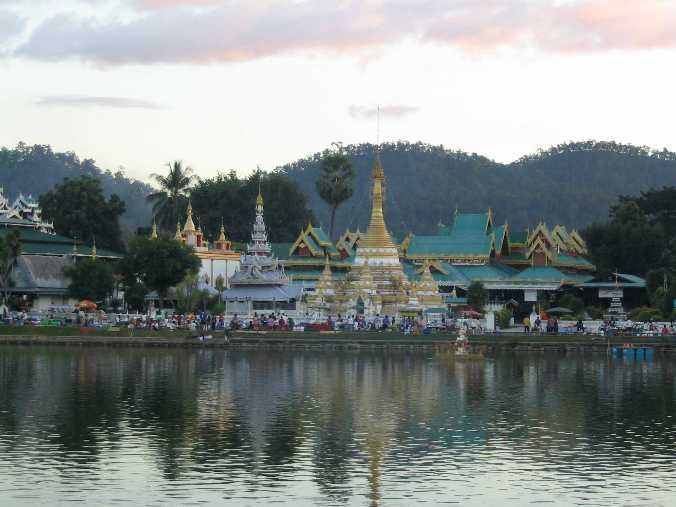 Wat Chong Kham, Mae Hong Son, Thailand